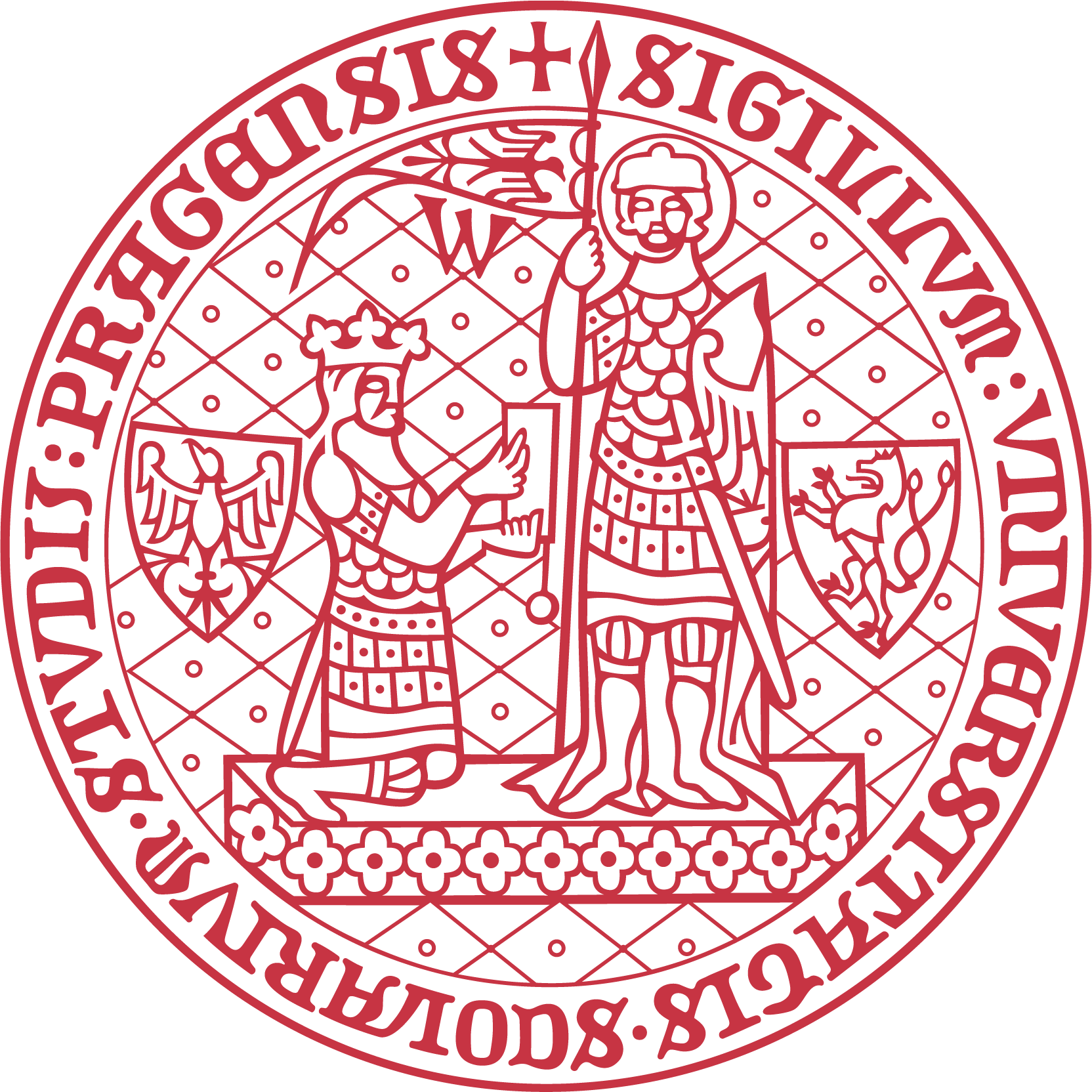 Seal of the Charles University in Prague